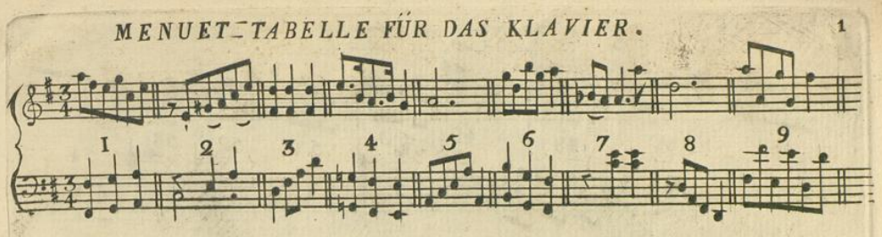 First bars of Table pour composer des Minuets et des Trios à la infinie - a music game (Musikalisches Würfelspiel) by Maximilian Stadler. Collections of Badische Landesbibliothek.